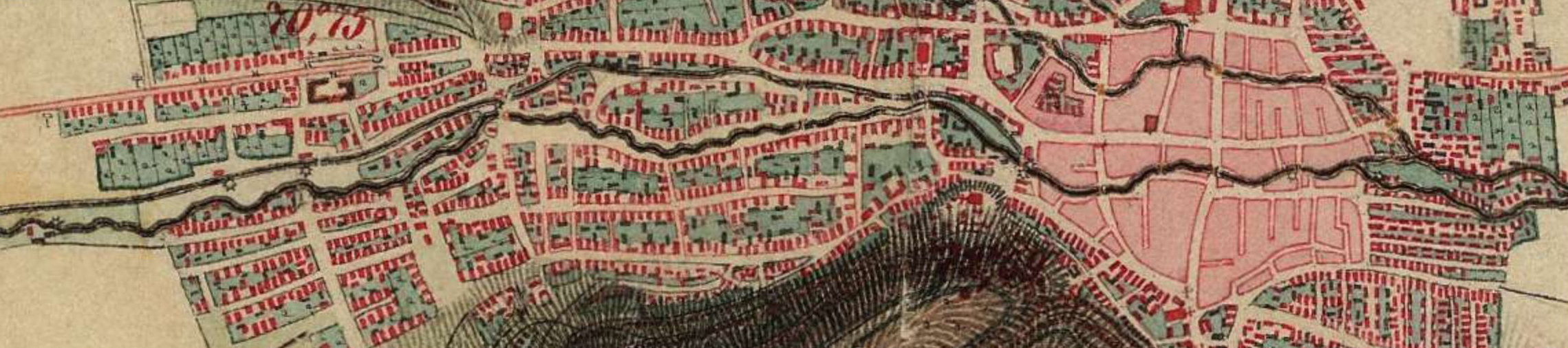 Map detail of 2nd military survey 1806-1869, Miskolc